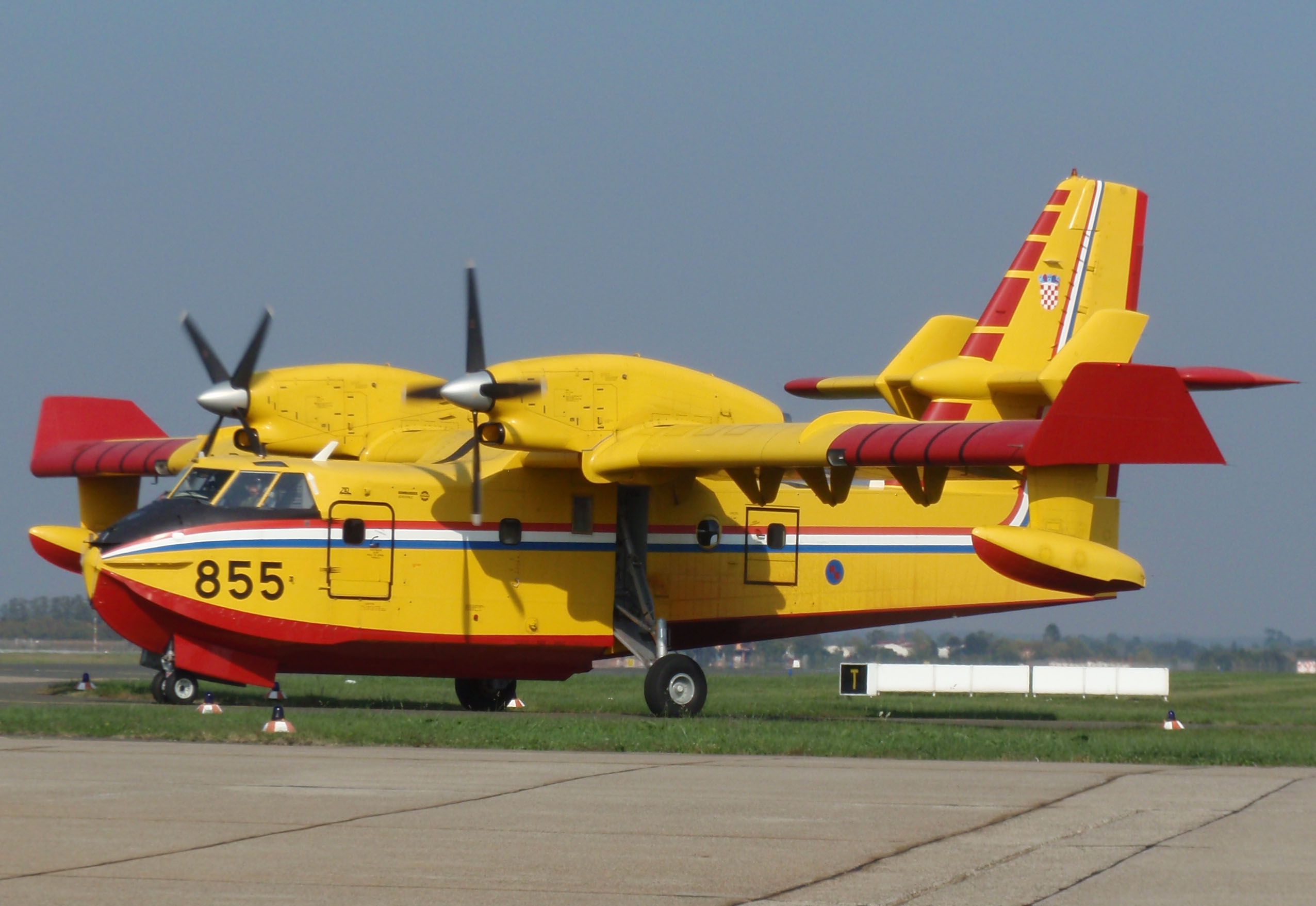 Canadair CL-415 at Zagreb airport